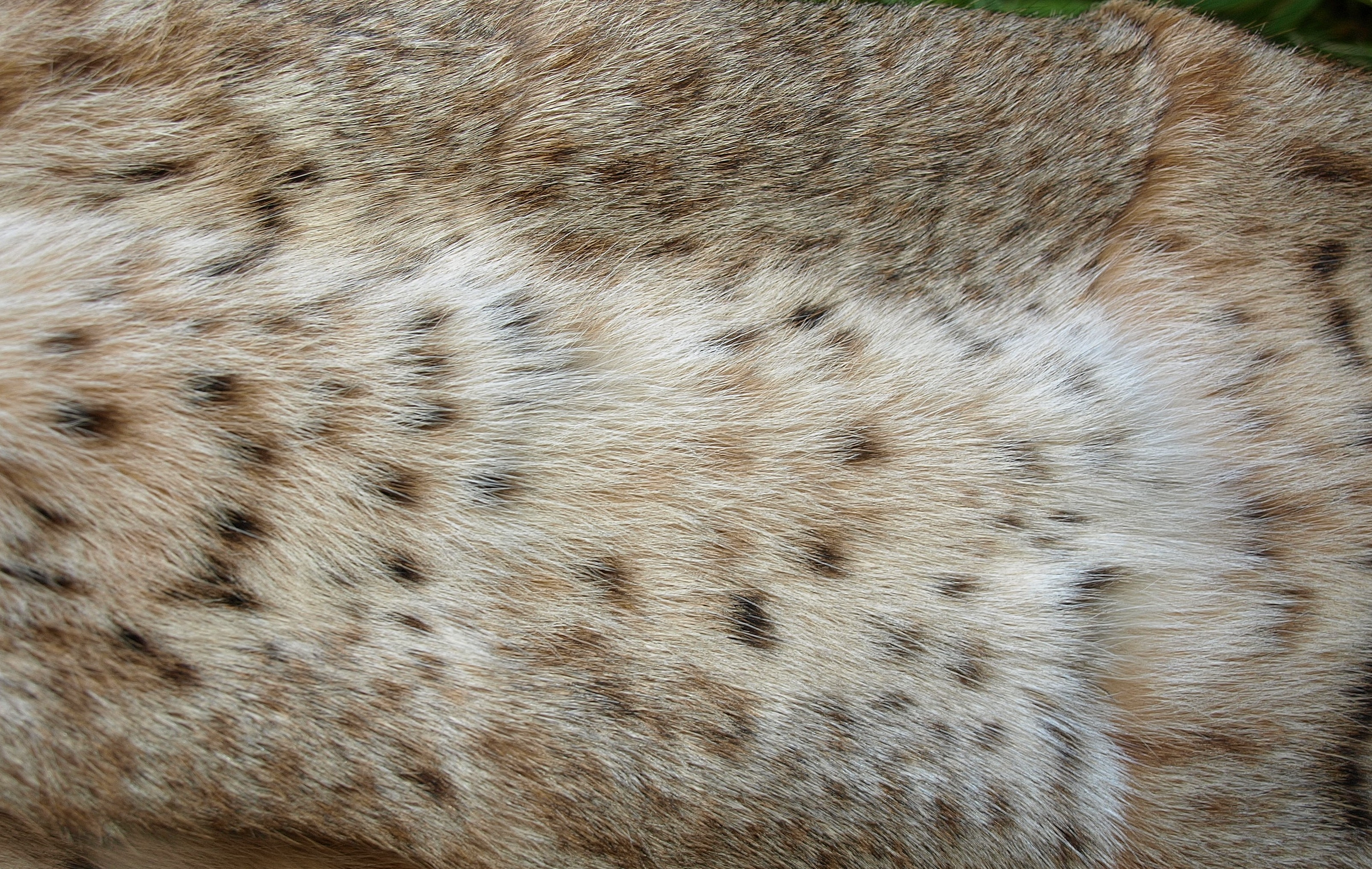 Bobcat fur pieces and collar of lynx dyed blue fox fur (cutting lynx cat pieces)